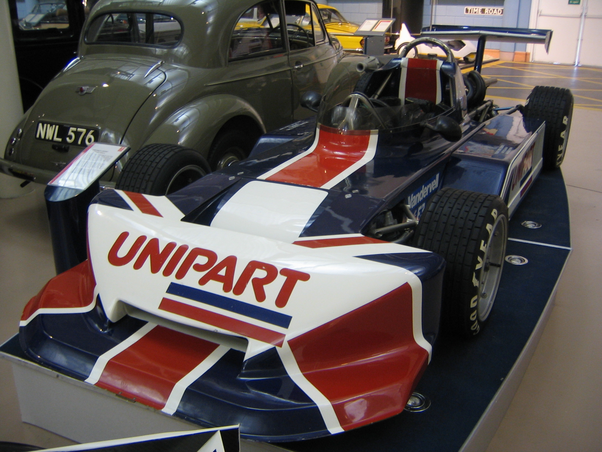 1979 March-Triumph F3 car Nigel Mansell’s Formula 3 racing car